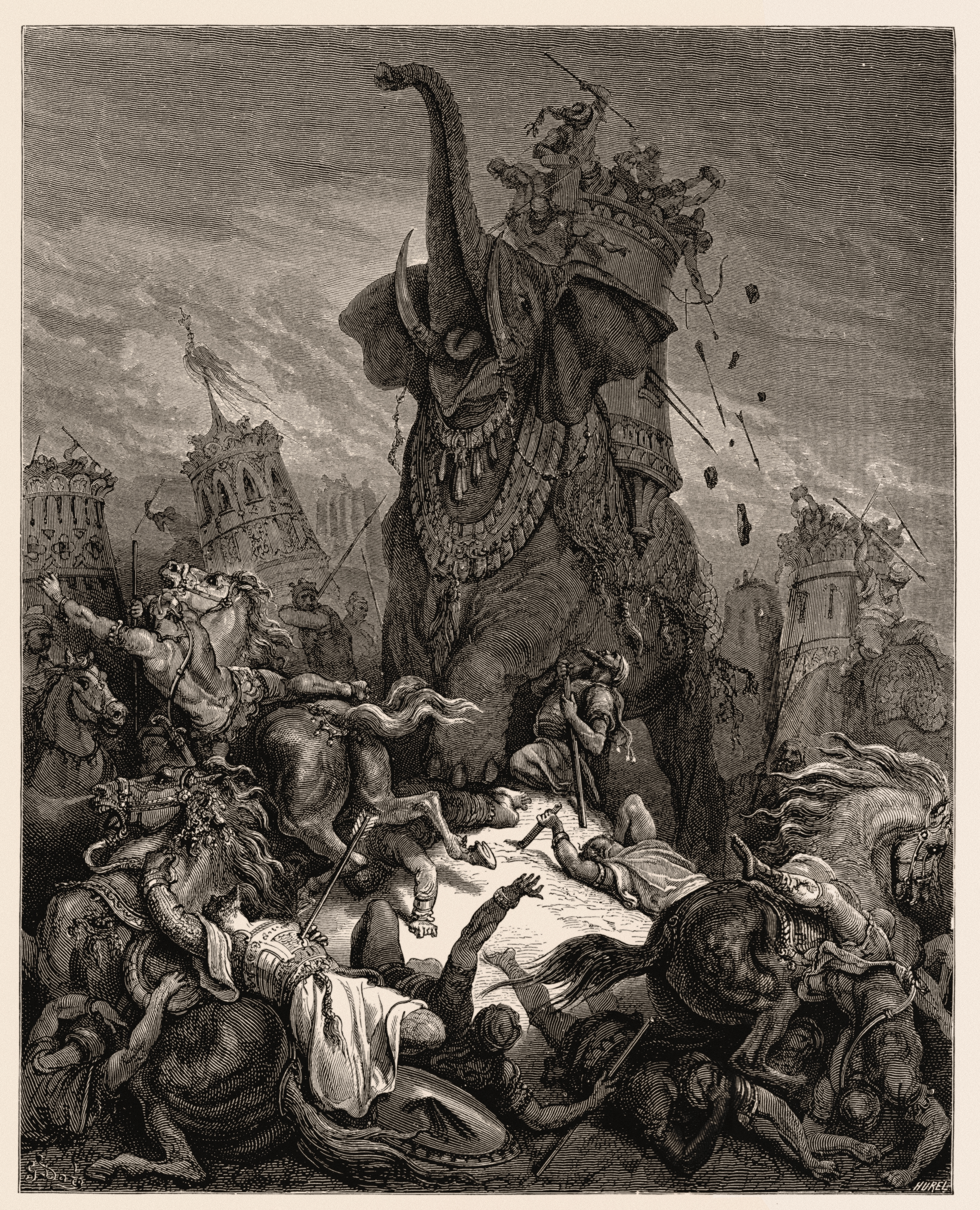 Gustave Doré engraving for the Bible - "Death of Eleazer" 1866